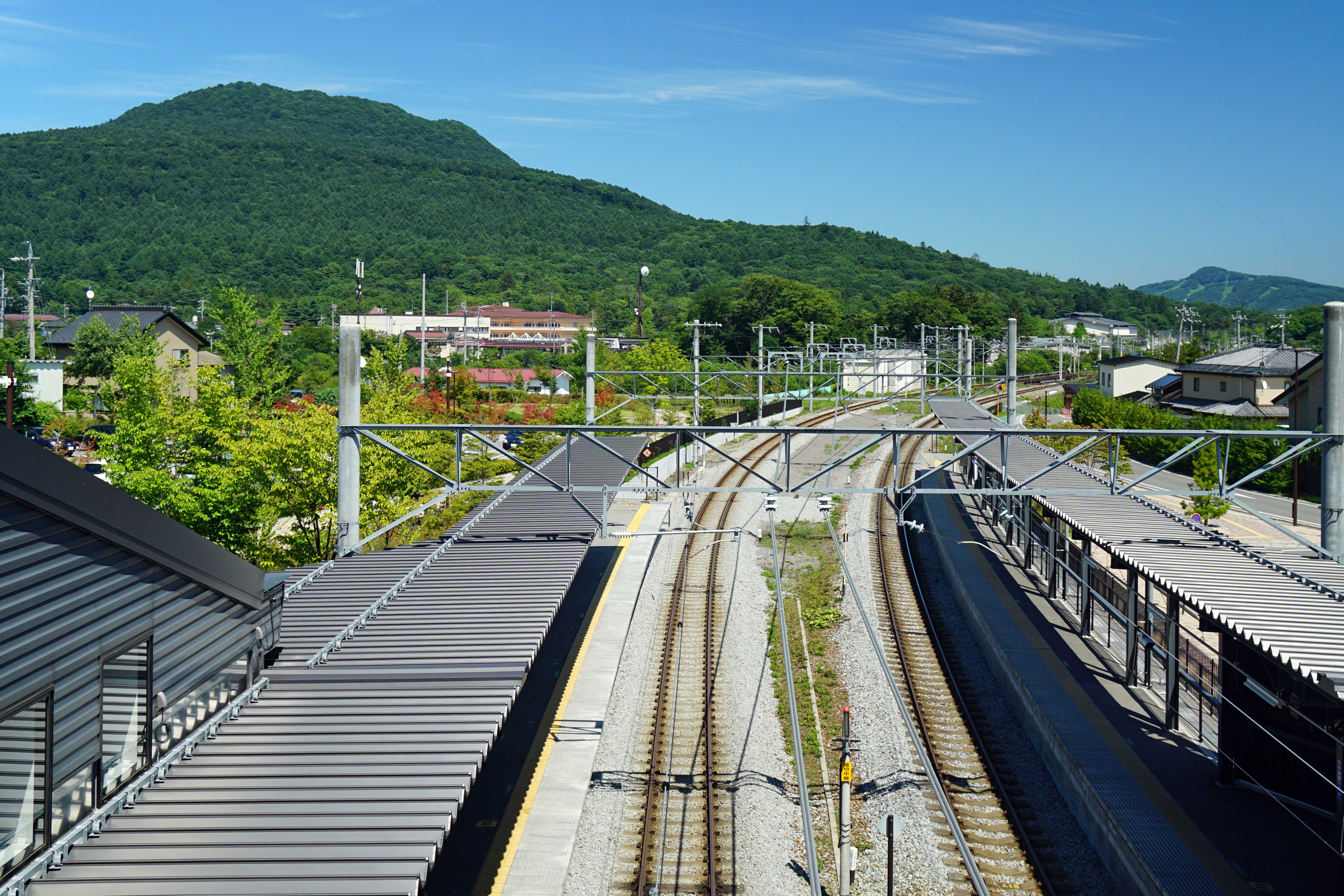 Naka-Karuizawa Station in Karuizawa, Nagano prefecture, Japan.